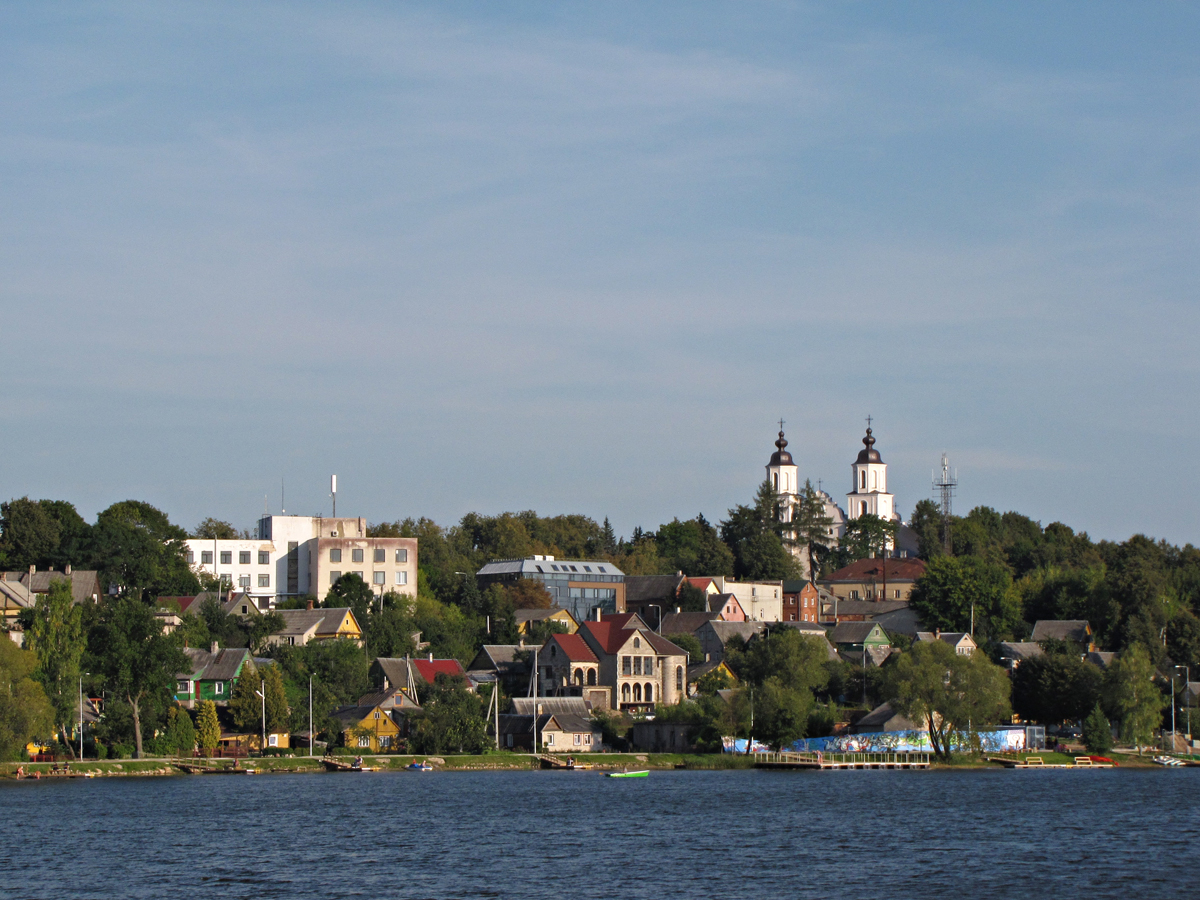 View of Zarasai, Lithuania.